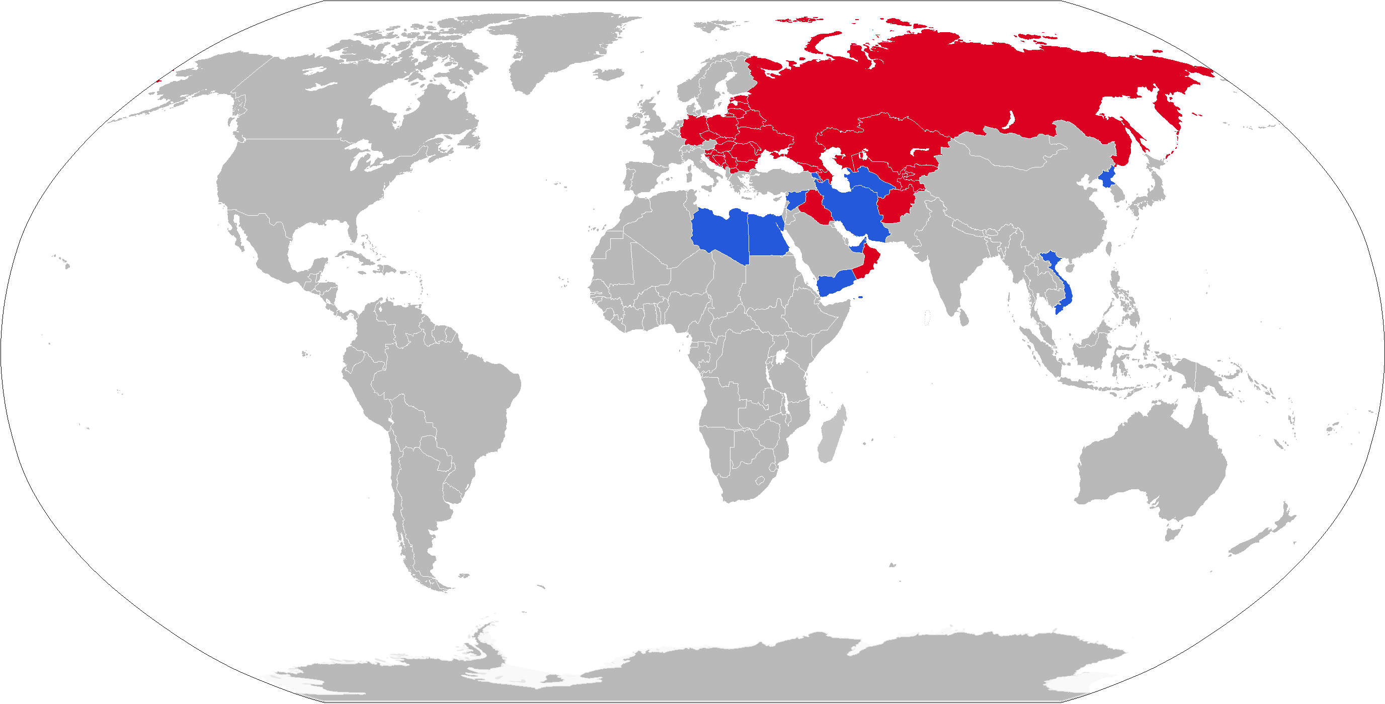 Map with Scud operators in blue and former operators in red